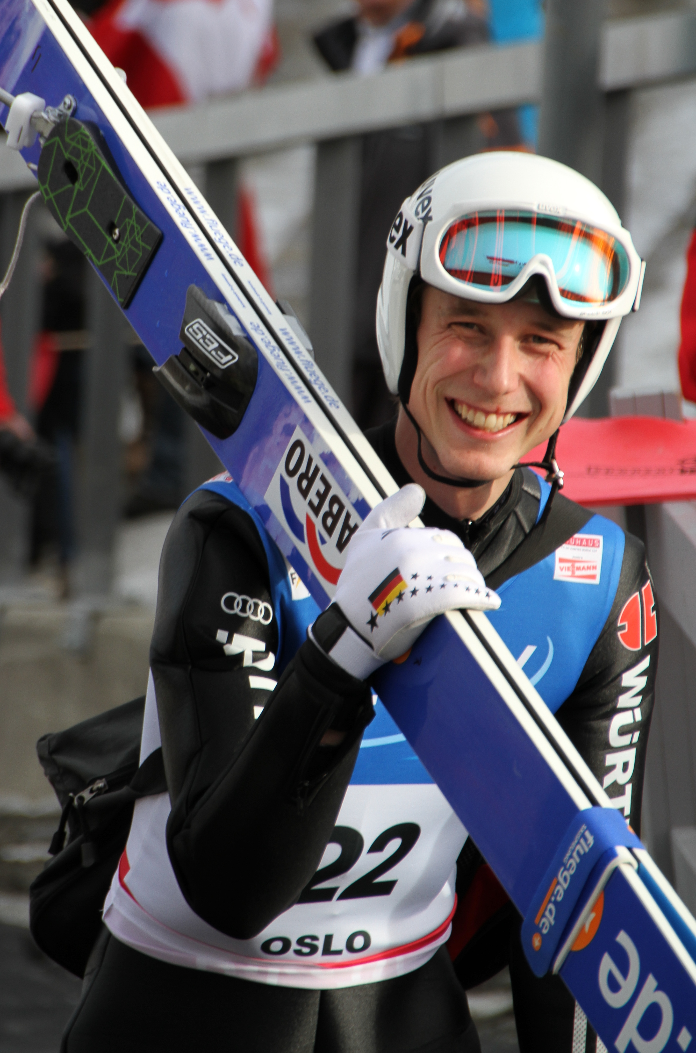 Holmenkollen, Oslo. FIS World Cup Ski Jumping, first round. March 11, 2012. This was the third last WC tournament of the season